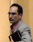 Hasan SeydAbadi